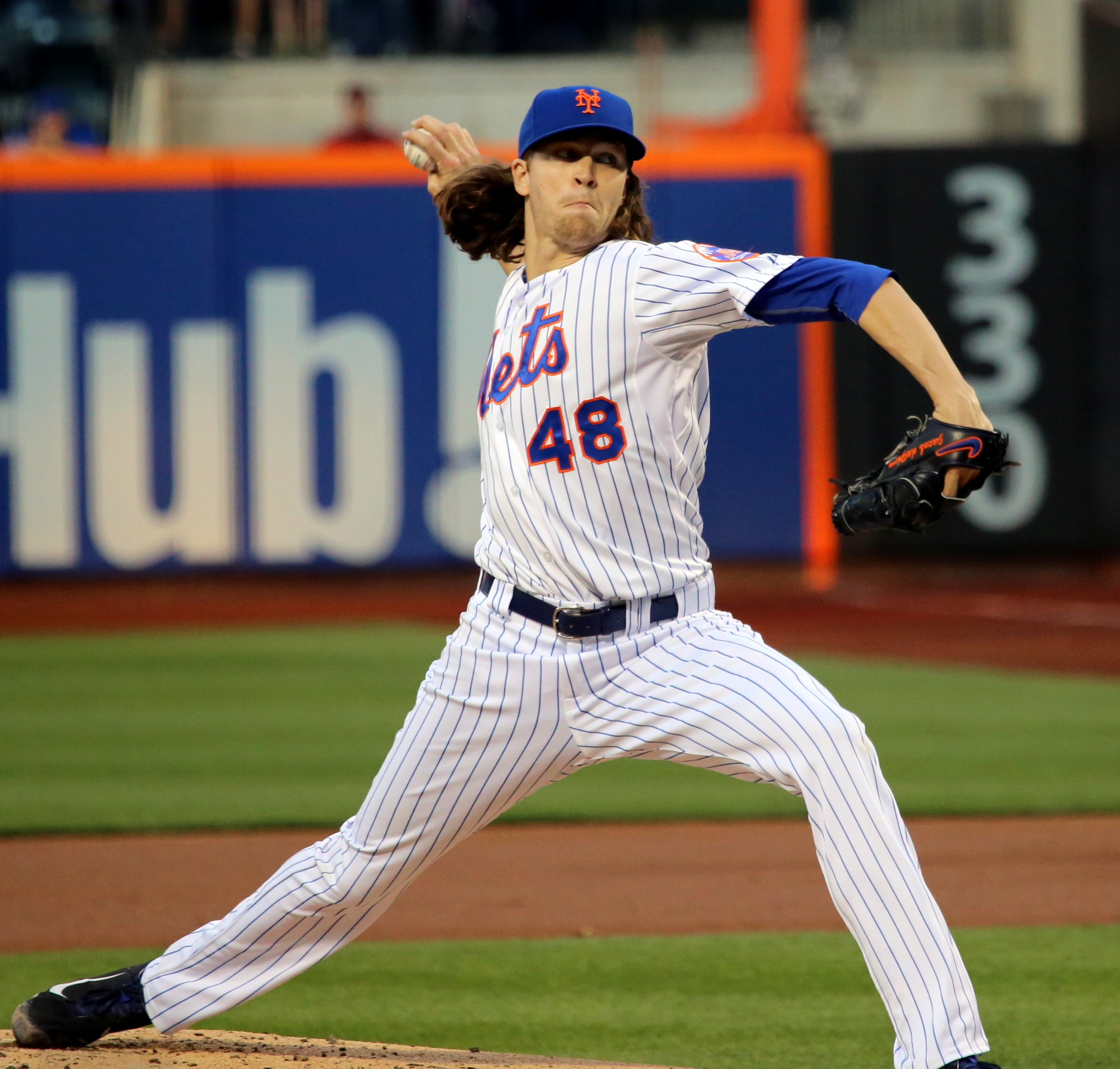 Jacob deGrom delivers a pitch against the Orioles.